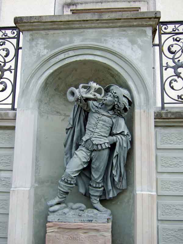 Statue of the trumpeter of Saeckingen